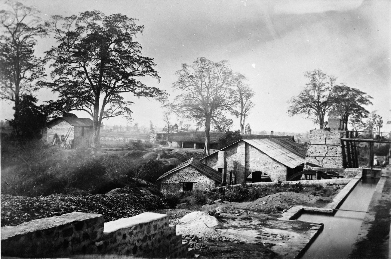 Ironworks in Kaladhungi at the foot of the Himalayas sometime at the turn of 1862/1863. To the right, just beyond the canal sluices, seen four blast furnaces. One can also note that the landscape as a whole is almost treeless, possibly in part a result of the removal of iron hate ring necessitated.